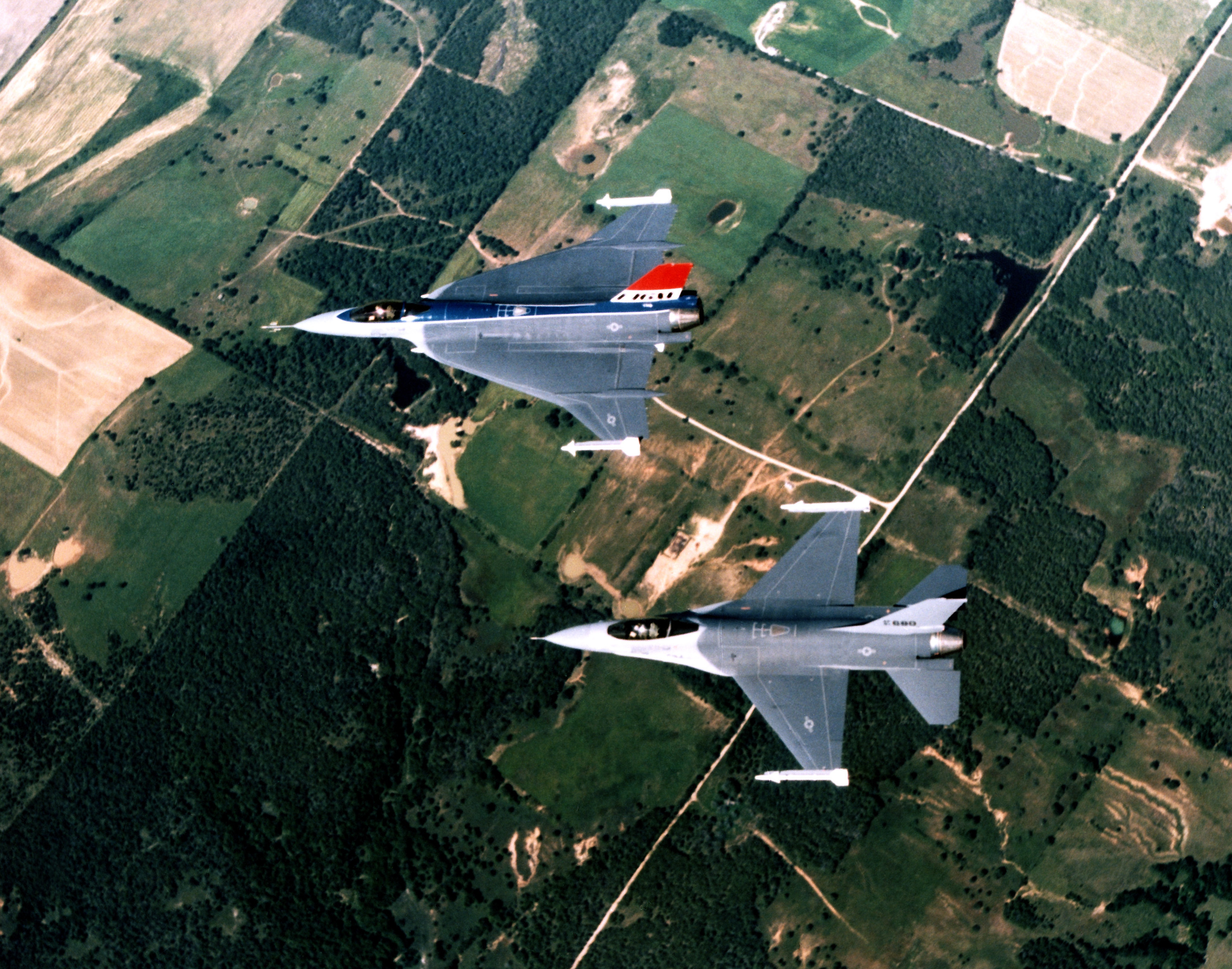 An air-to-air top left view of an F-16XL prototype and the F-16 Fighting Falcon aircraft during the Farnborough Air Show. The aircraft are armed with AIM-9 Sidewinder missiles. The F-16XL is also armed with AIM-7 Sparrow missiles on its under-fuselage.